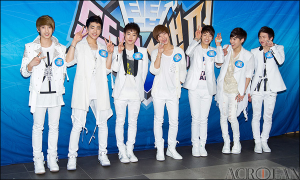 SBS MTV's Teen Top Rising 100% press conference with Andy Lee